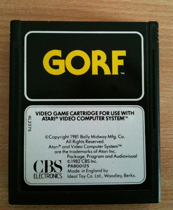 Atari 2600 Gorf Game Catridge